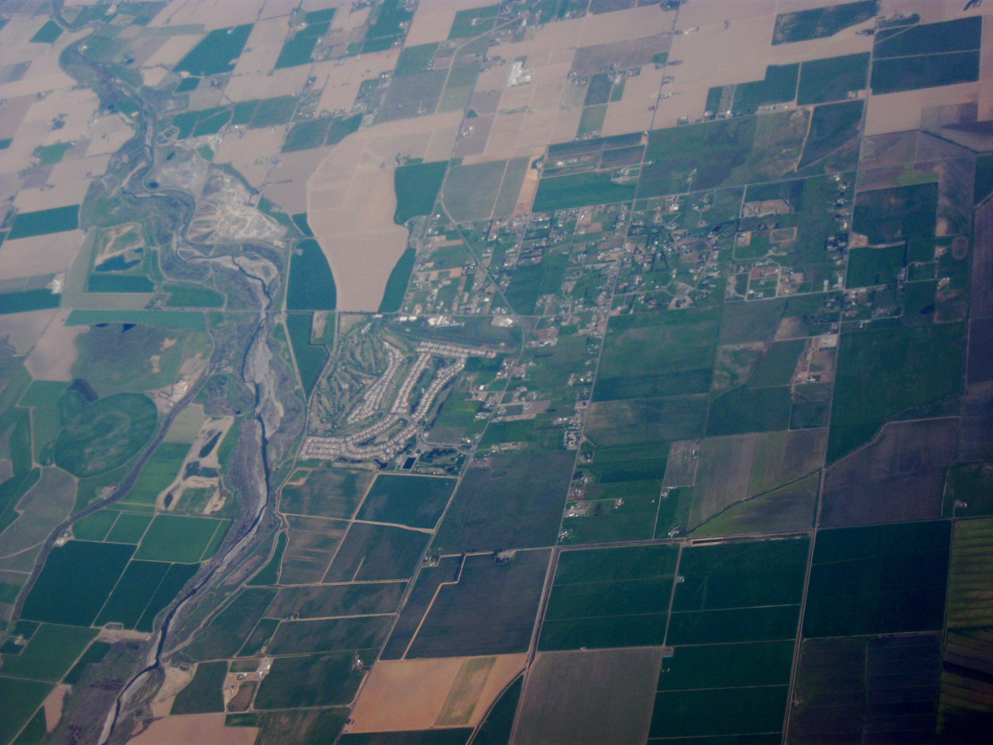 Aerial photo of Watts-Woodland Airport and surrounding area's crop fields — in Yolo County, the Sacramento Valley, northern California.